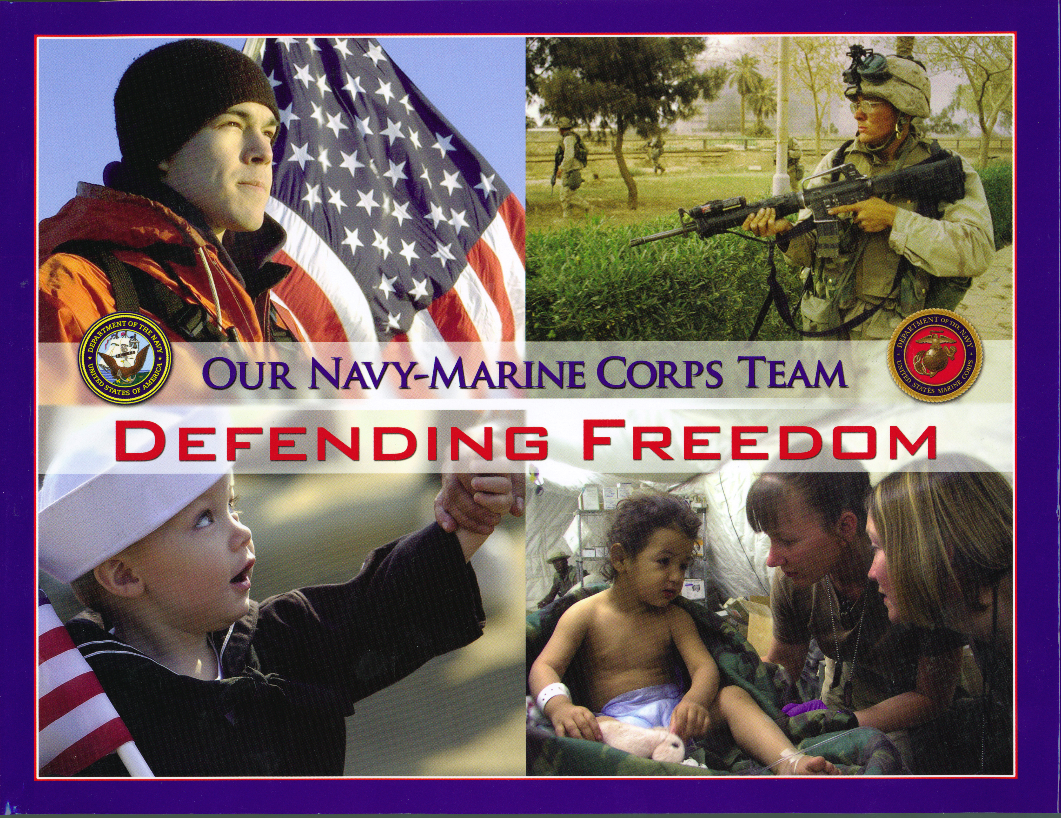 Pentagon, Washington, D.C. (May 26, 2005) - Cover photo of the new coffee table photo book "Defending Freedom." The 9x12 inch book contains over 250 full color printed images of the war on terror as seen through the eyes of our Navy and Marine Corps men and women, during operations Enduring Freedom, and Iraqi Freedom. The back inside cover contains the "War on Terrorism" DVD with three high definition video productions, and an added CD bonus containing over 450 high-resolution images. U.S. Navy photo (RELEASED) To purchase a copy of this book go to